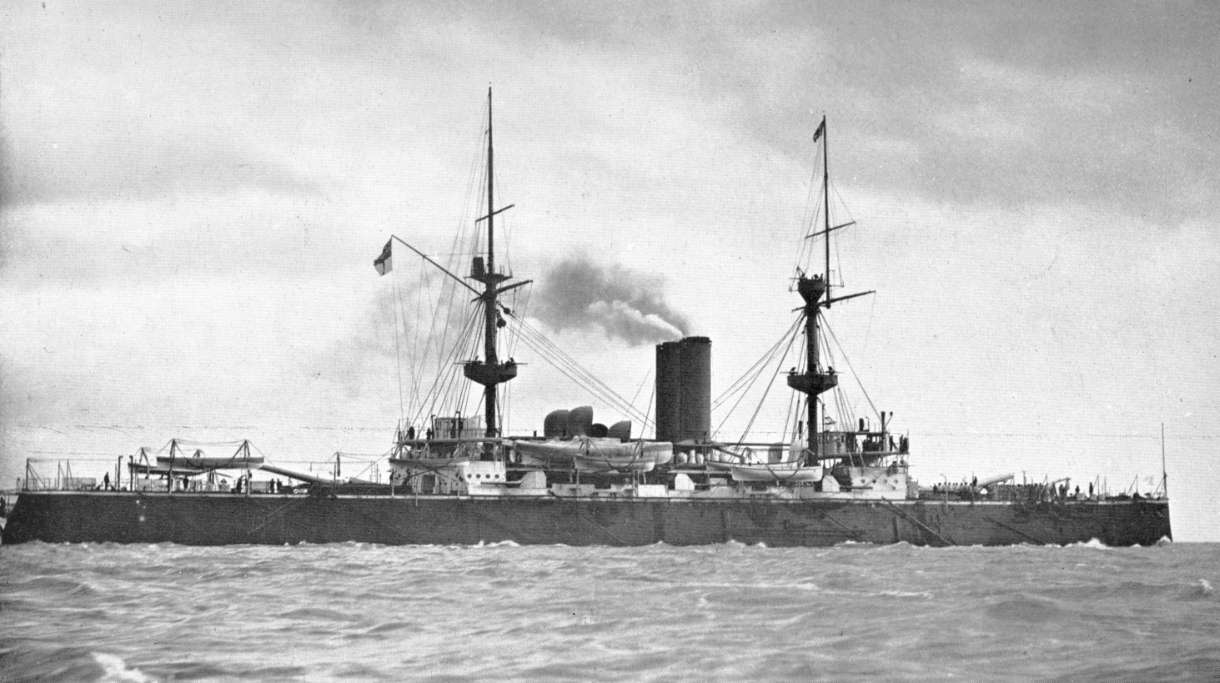 British battleship HMS Royal Oak (1892).